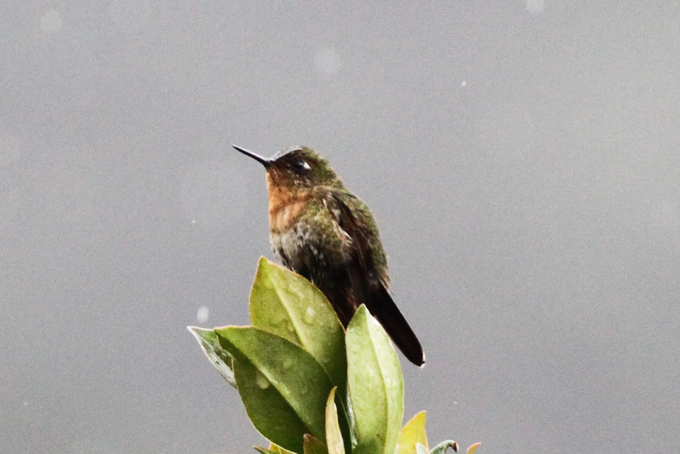 Purace National Park,Cauca